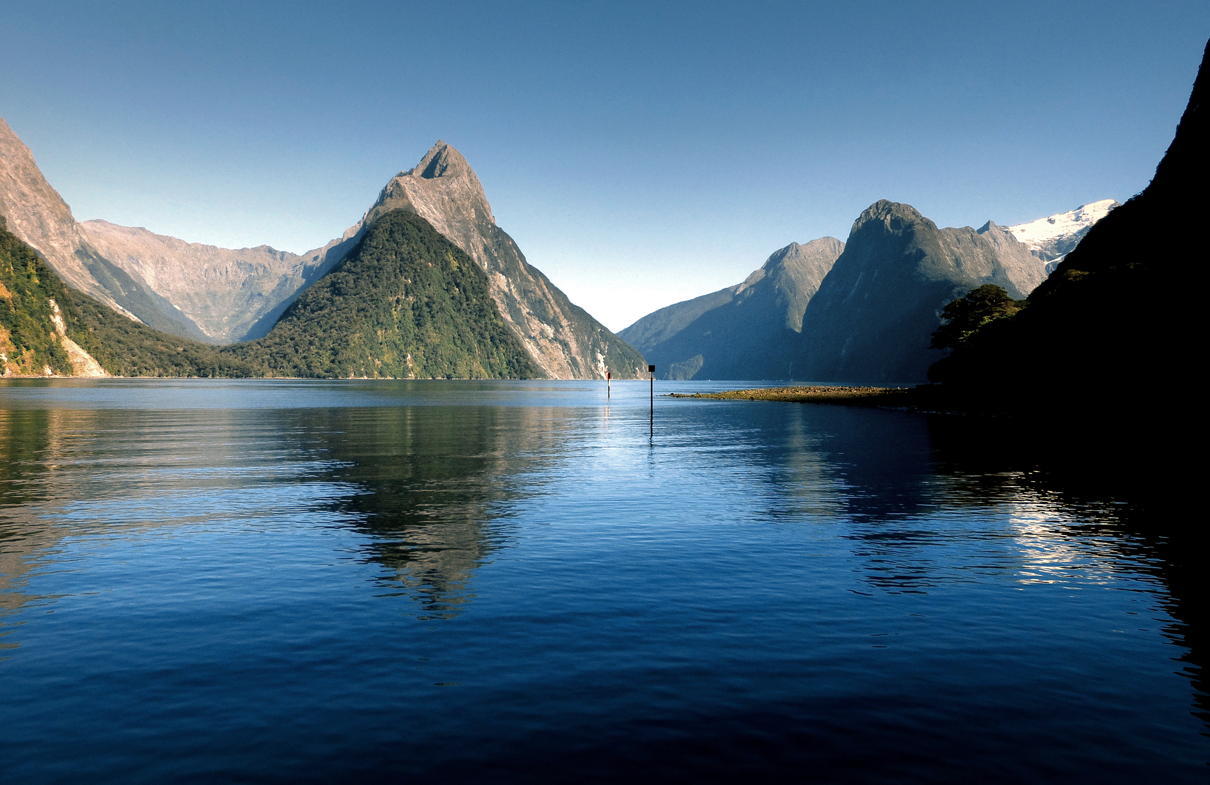 Milford Sound is a fiord in the south west of New Zealand's South Island, within Fiordland National Park, Piopiotahi Marine Reserve, and the Te Wahipounamu World Heritage site.